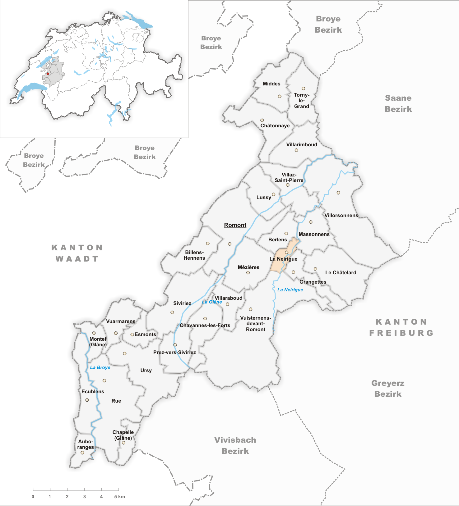 Municipality La Neirigue Artist: Tschubby